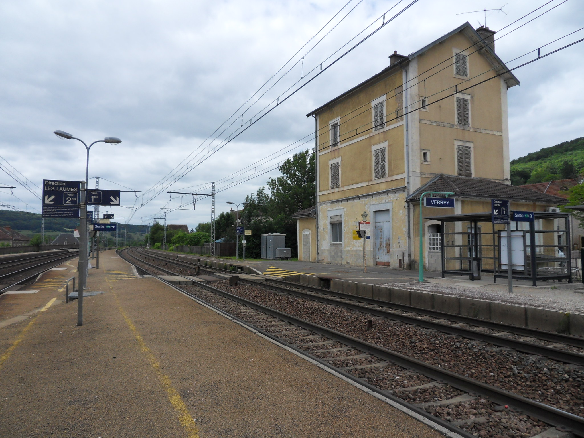 The train station of Verrey-sous-Salmaise, Côte-d'Or, France.